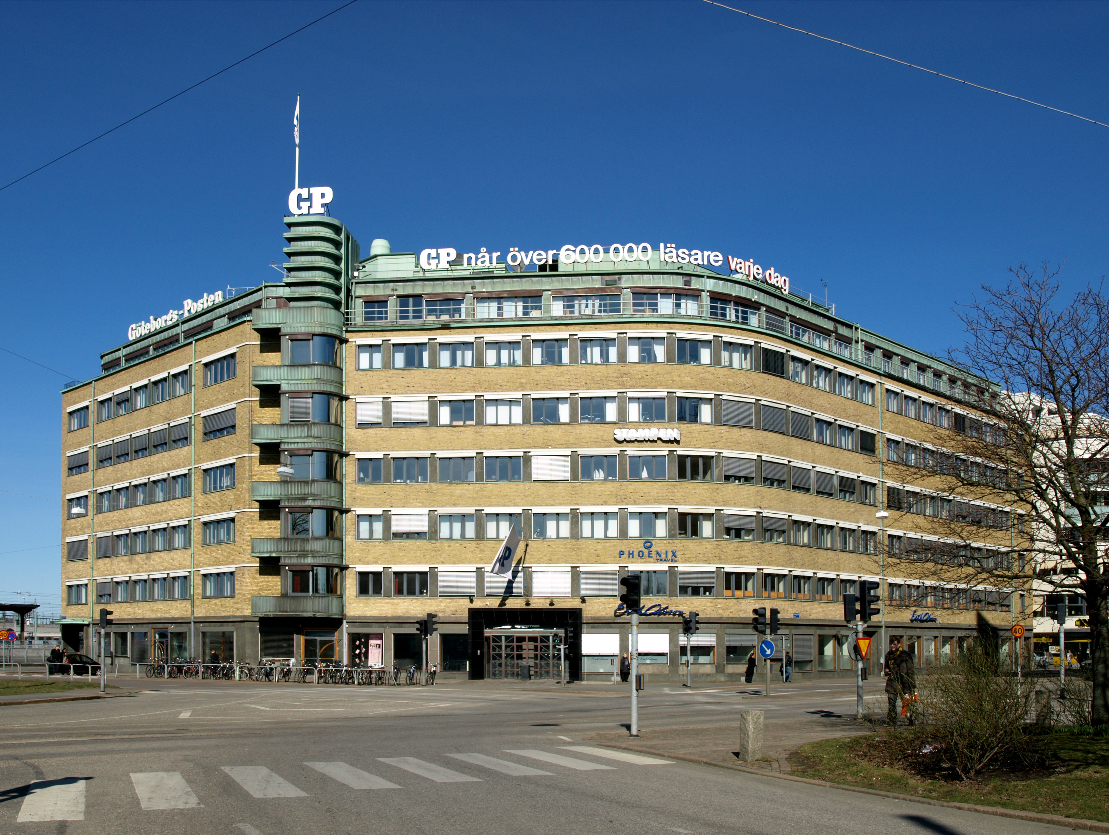 The "GP-house" in Gothenburg, Sweden. It is the main office of the regional newspaper "Göteborgs-Posten"